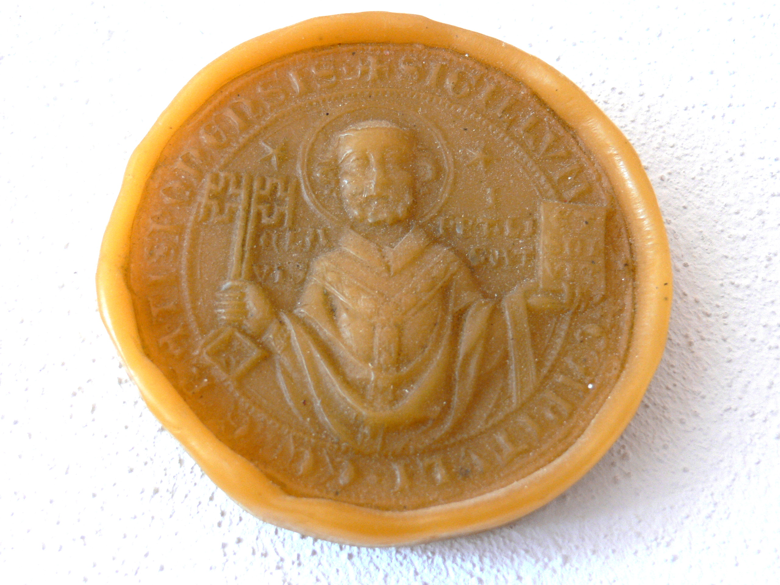 Seal of the cathedral´s chapter of Regensburg 1399